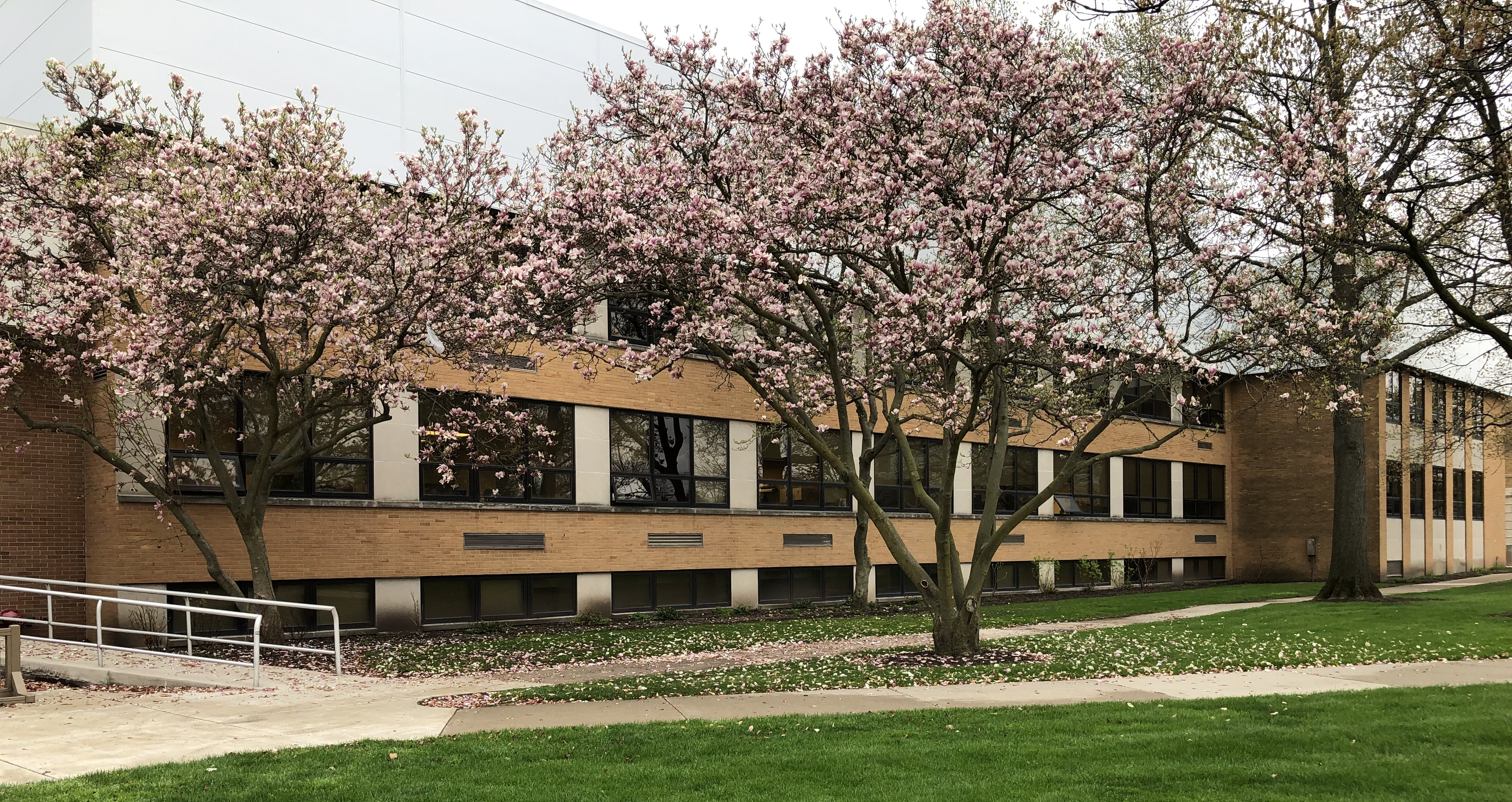 Cherry Blossoms at Overman Hall, the BGSU Physics building.